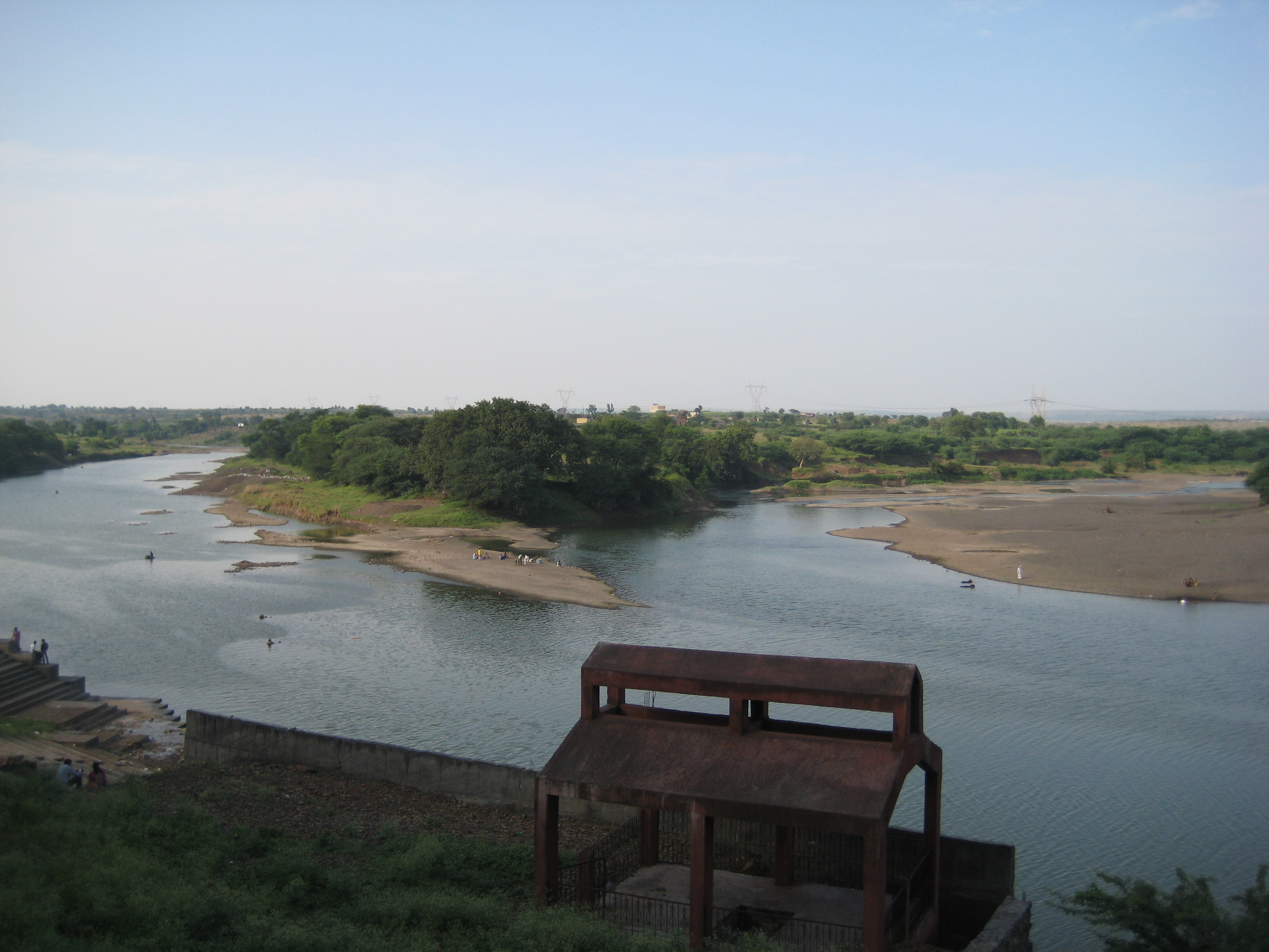 sangameshwar at tulapur